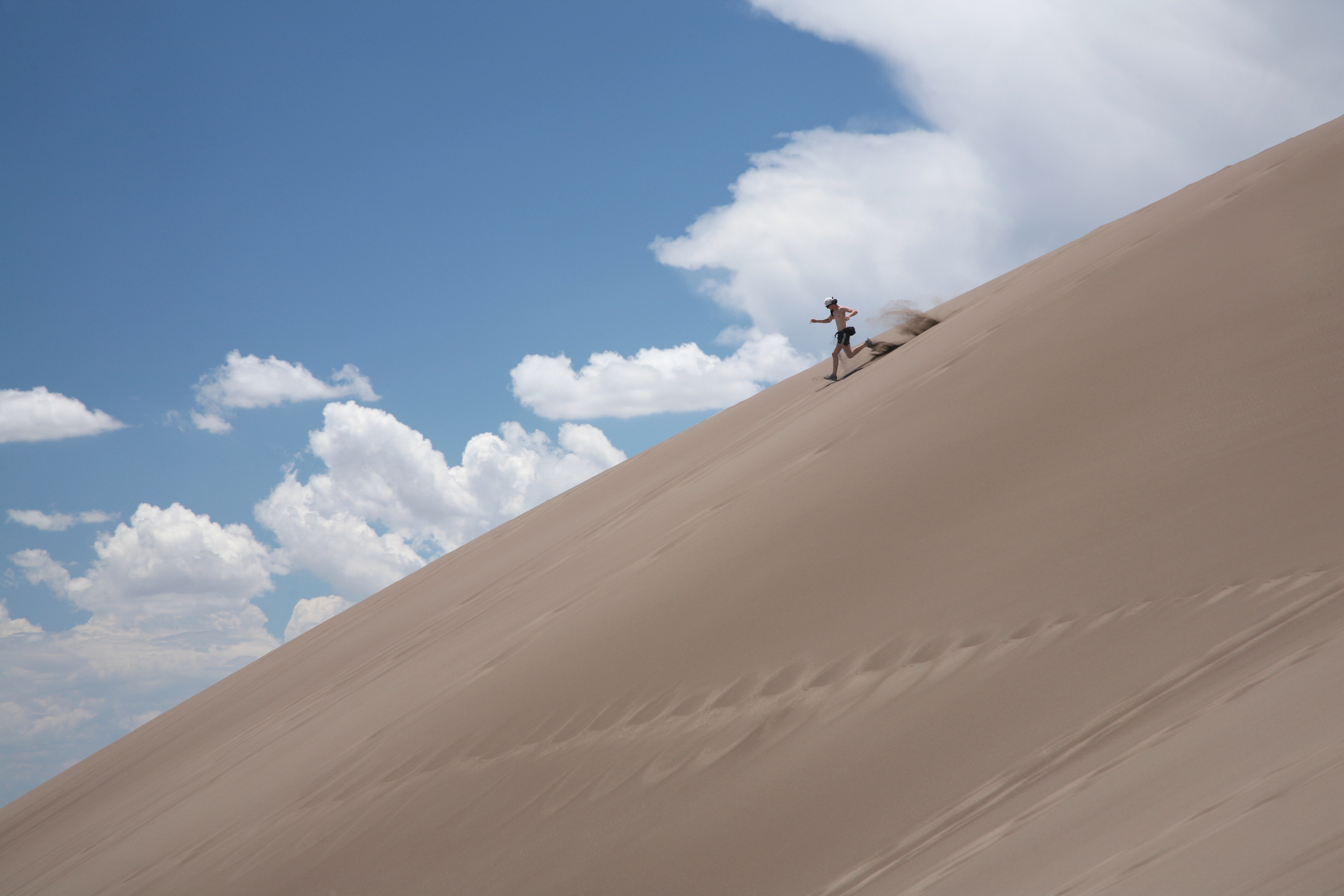 Visitor running down a dune in Great Sand Dunes National Park.